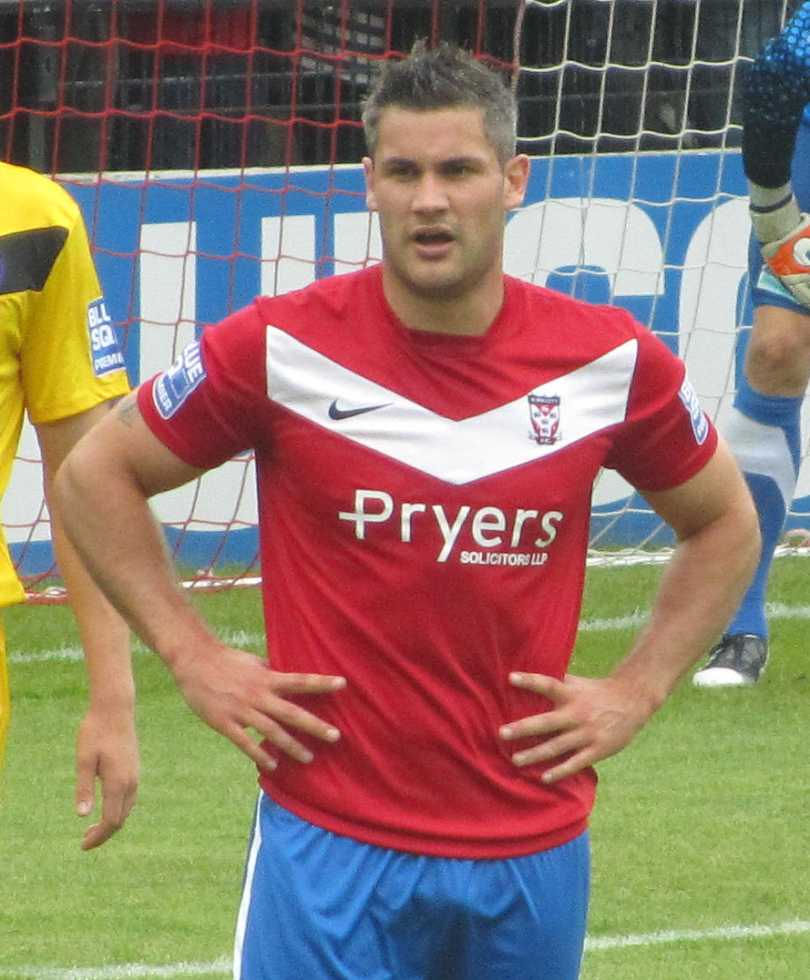 Jamie Reed